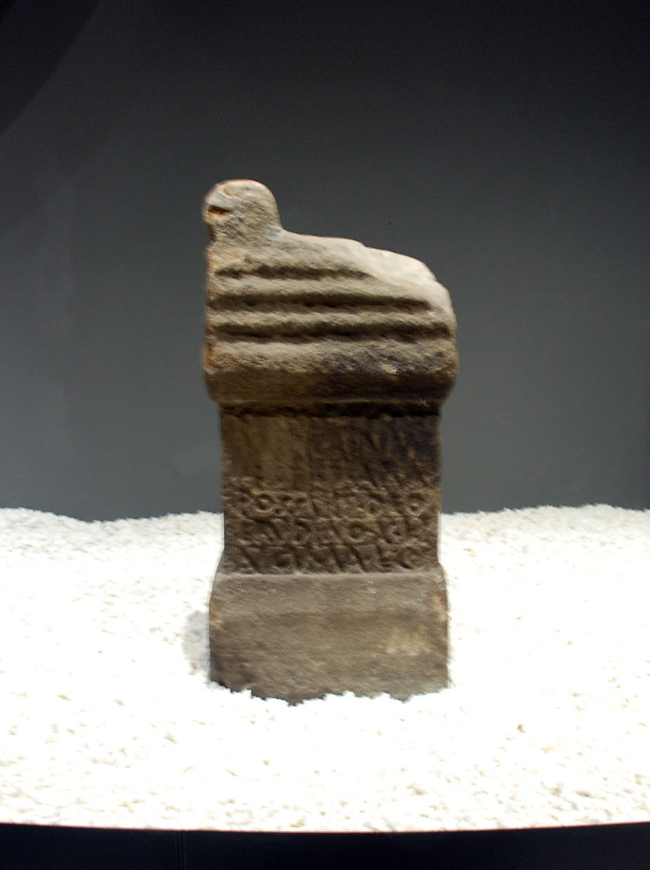 Museum of Prehistory and Archaeology of Cantabria. Altar to Erudino from Mount Dobra (Torrelavega, Cantabria). Museo de Arte Contemporáneo de Santander.